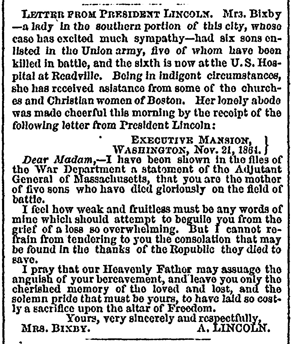 Abraham Lincoln's letter to Mrs. Bixby printed in the Boston Evening Transcript